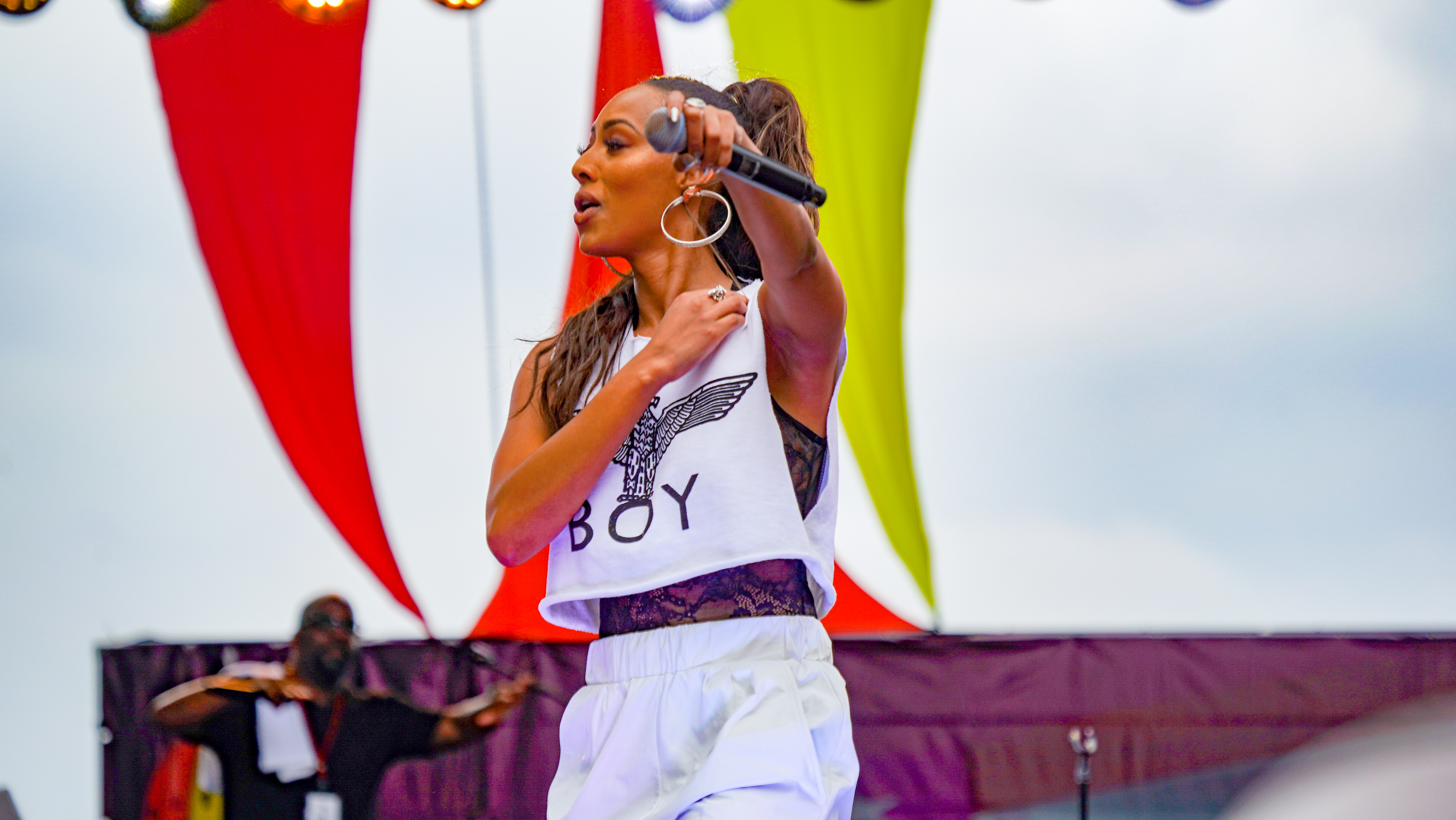 Keri Hilson performs - Capital Pride 2018 concert